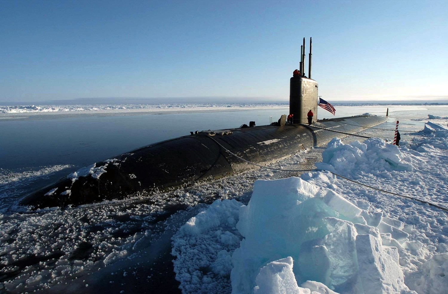 The US Navy (USN) Los Angeles class Attack Submarine USS Hampton (SSN 767) surfaced at the North Pole. Hampton and a Royal Navy submarine took part in Ice Exercise 04 (ICEX 04), a joint operational exercise beneath the polar ice cap. The Ice Exercise demo (Released to Public)